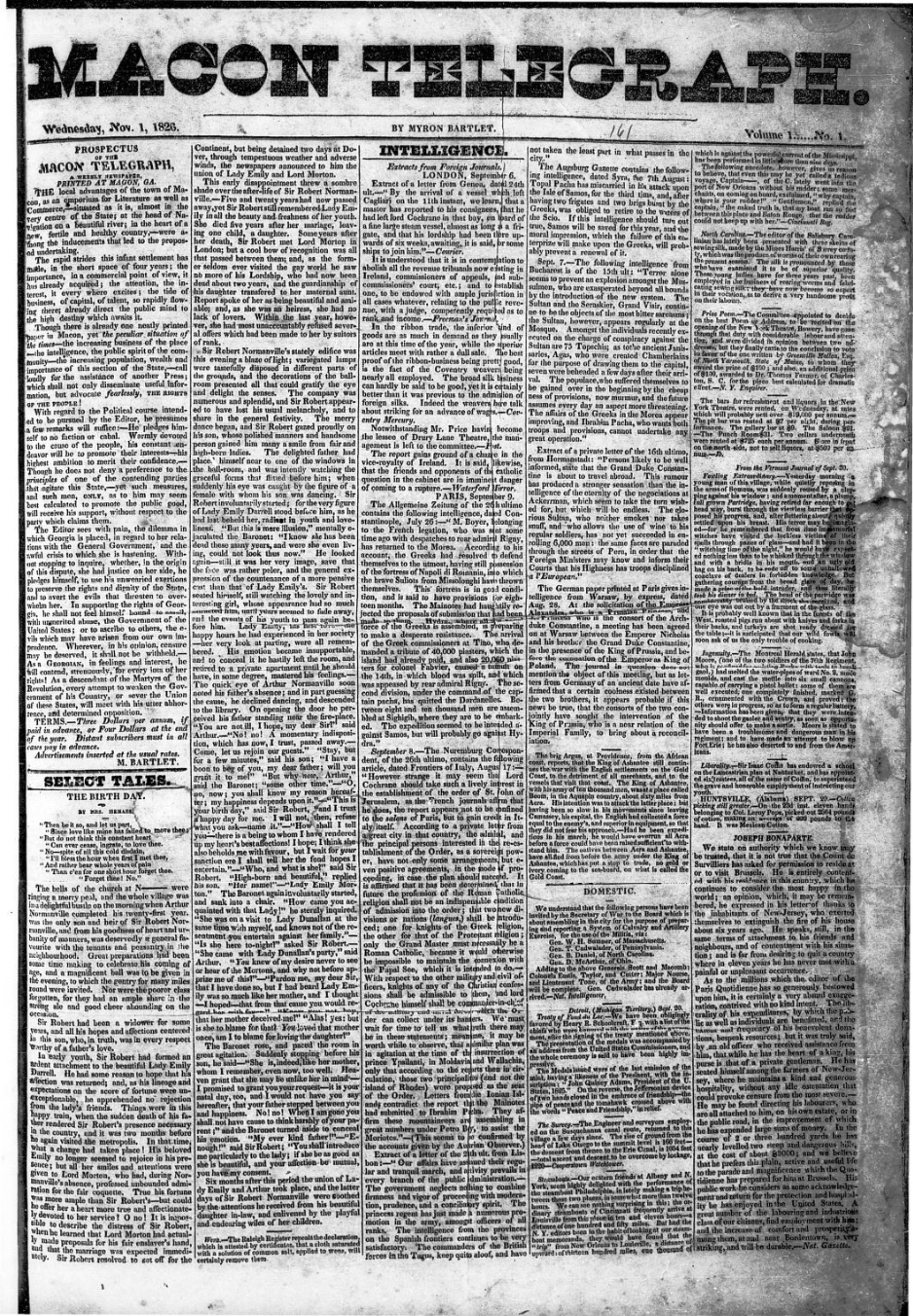 Front page of the first edition of The Macon Telegraph printed on November 1st, 1826 by Dr. Myron Barlett.